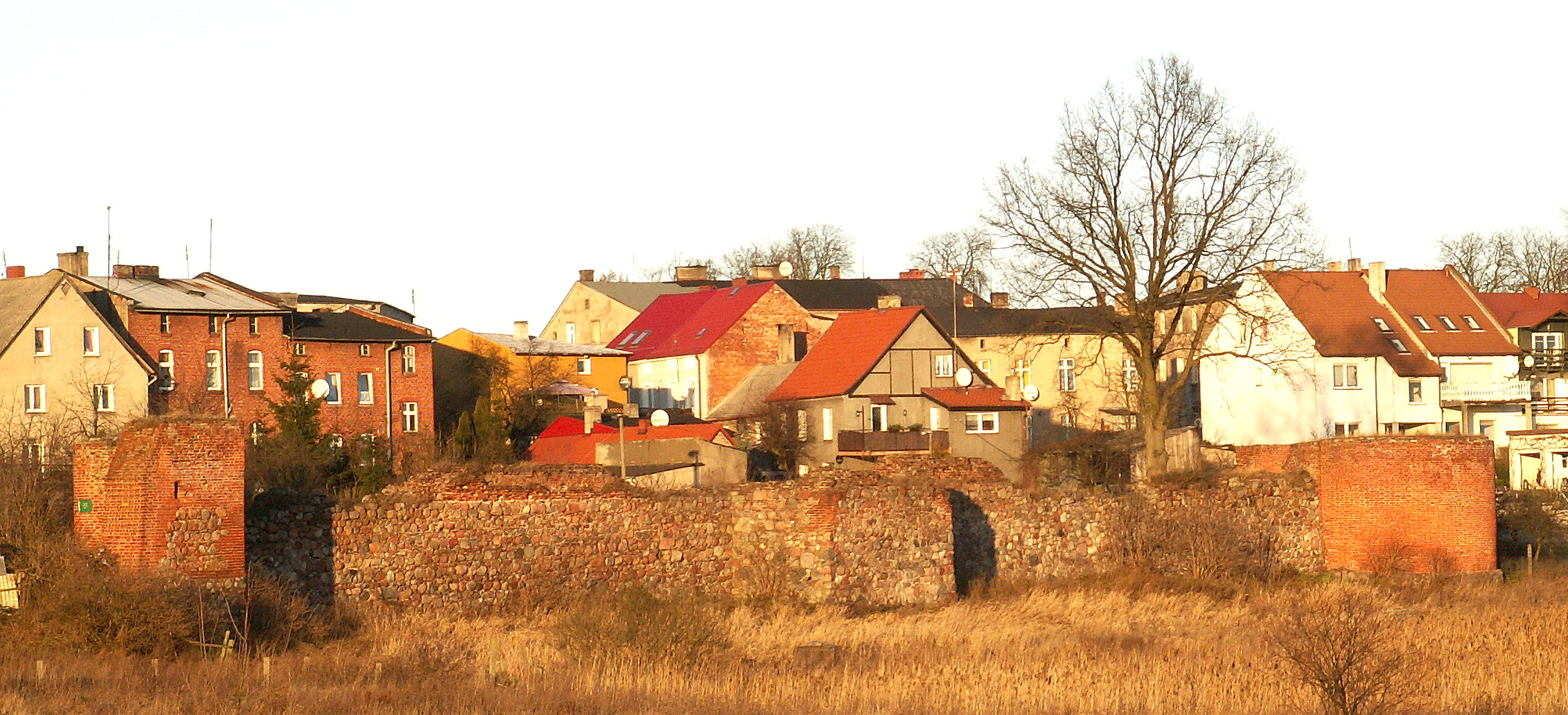 Middle Ages defensive wall in Skarszewy.